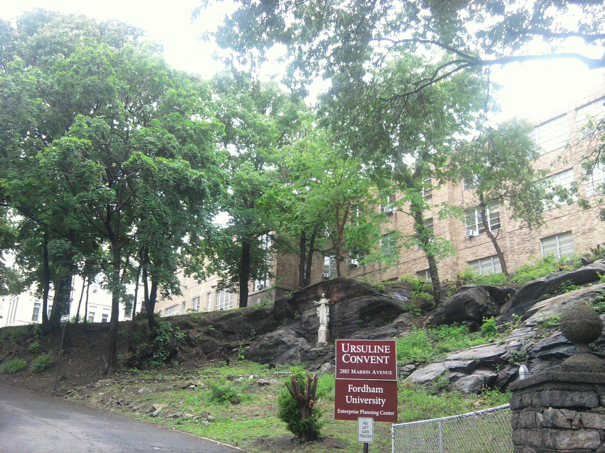 Looking west uphill from BPB at Ursuline Convent on a rainy afternoon.